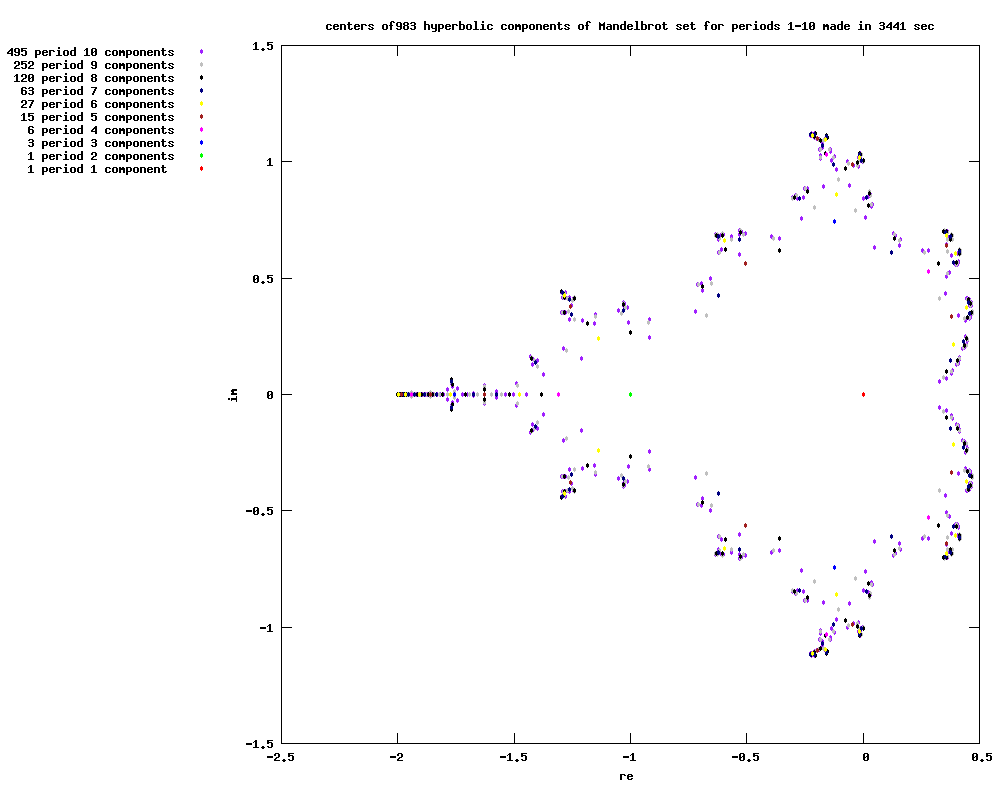 Centers of 983 hyperbolic components of Mandelbrot set with respect to complex quadratic polynomial for period 1-10